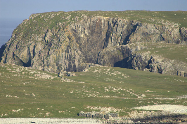 Muckle Head, Balta From the Keen of Hamar. the ruined building in the foreground is one of the buildings remaining from the herring fisheries in the early years of the 20th century, when there were so many gutting sheds around Baltasound that they ran out of room and started building them on Balta as well.